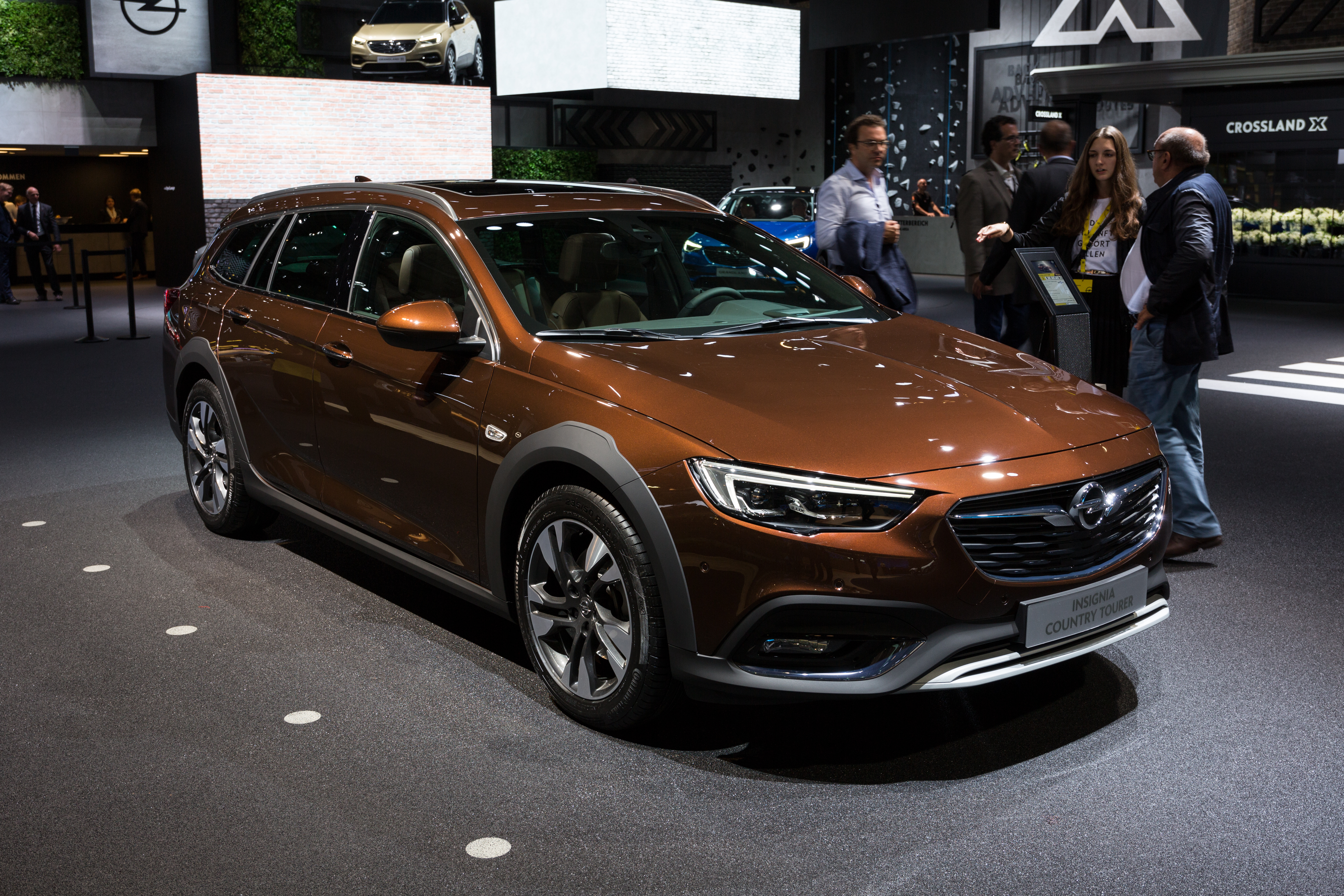 Opel Insignia Country Tourer at IAA 2017